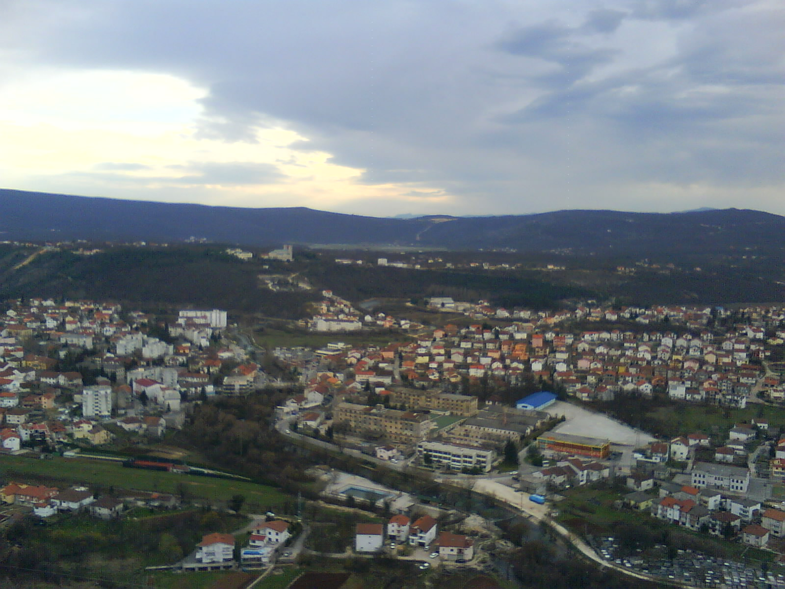 a panorama view of Široki Brijeg from Italian fort on Ćavar hill